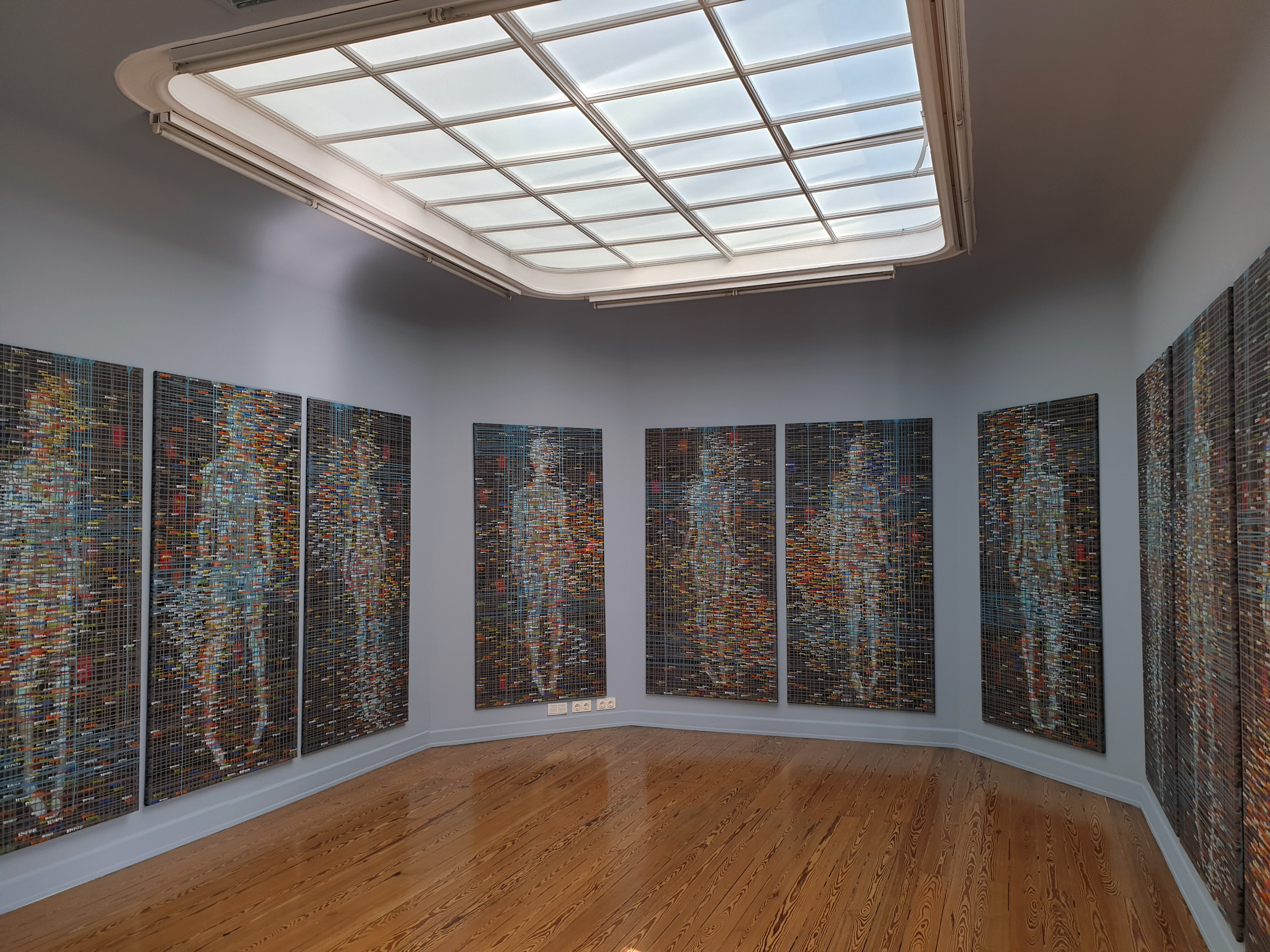 «UNENDLICH» Exhibition by 'OTGO' Otgonbayar Ershuu in Kunstverein Konstanz, Germany 2019